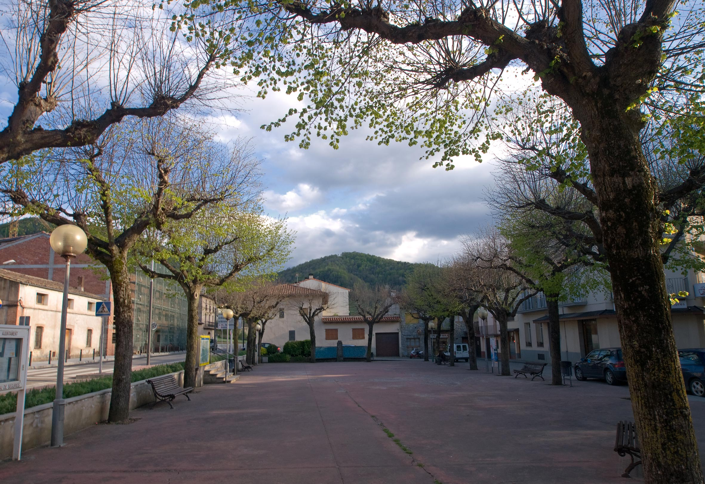 Sant Pau de Segúries Square (Catalunya, Spain)